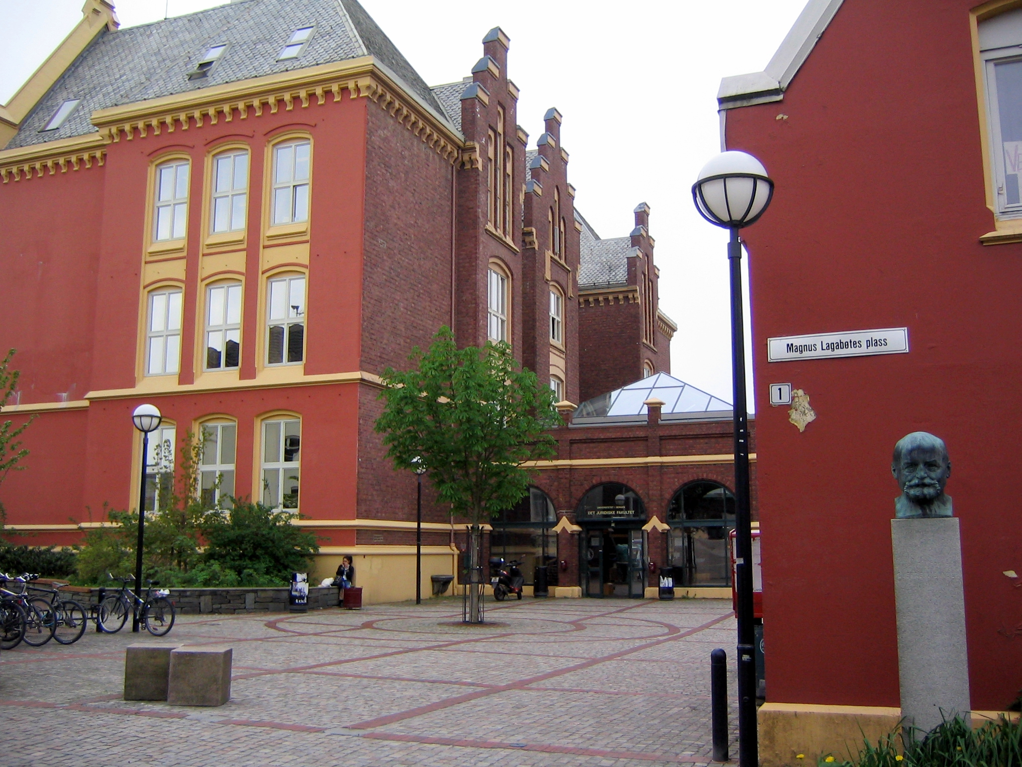 The Faculty of Law at the University of Bergen, Norway.